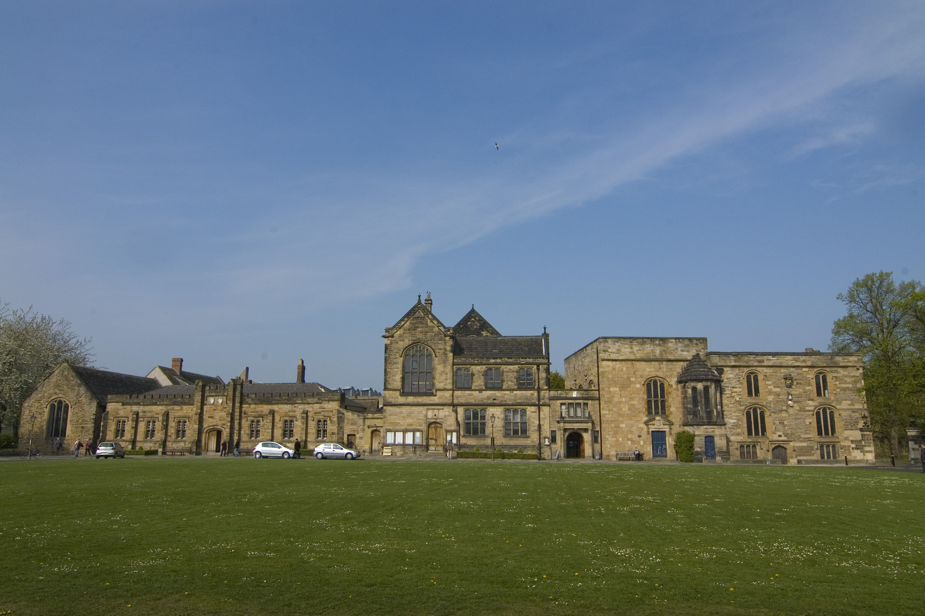 Durham University's Palace Green library